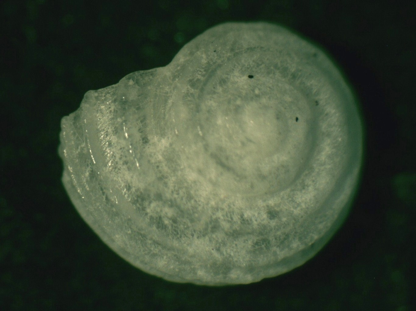 Elachorbis tatei (syn.:Circulus tatei (Angas, 1878), a sea snail from the family Tornidae; South Australia